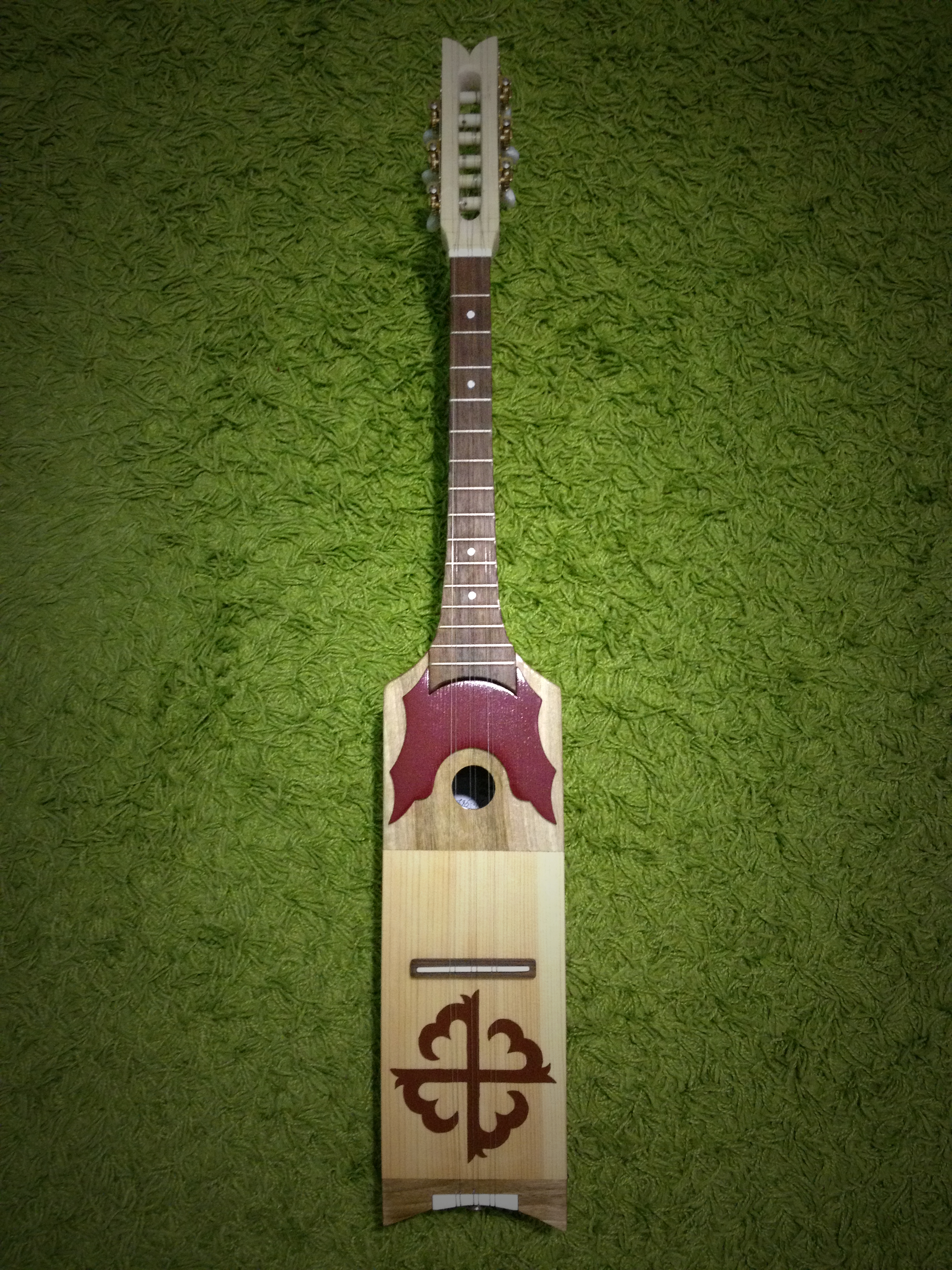 6-String Vainakhish Phandar